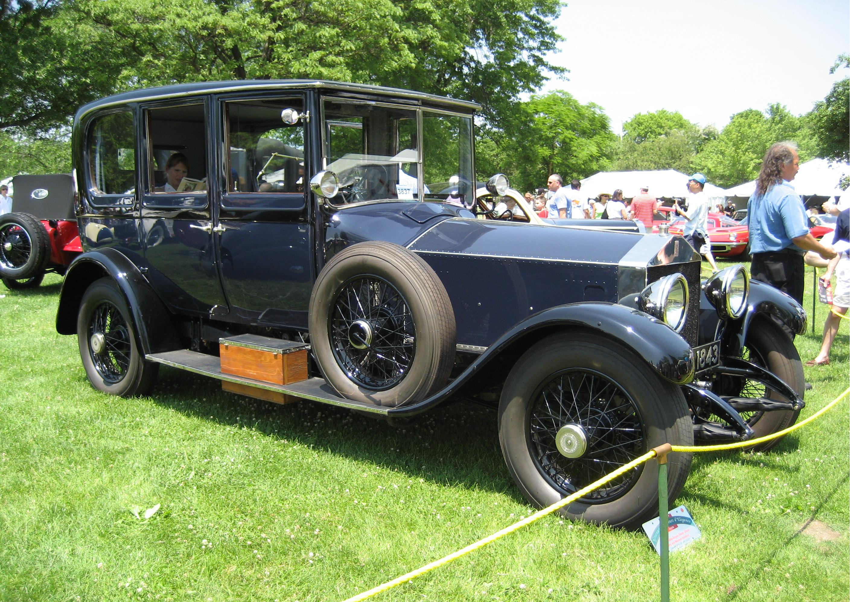 1920 Rolls-Royce Silver Ghost limousine photographed at the 2008 Greenwich Concours d'Elegance in Greenwich, Connecticut.